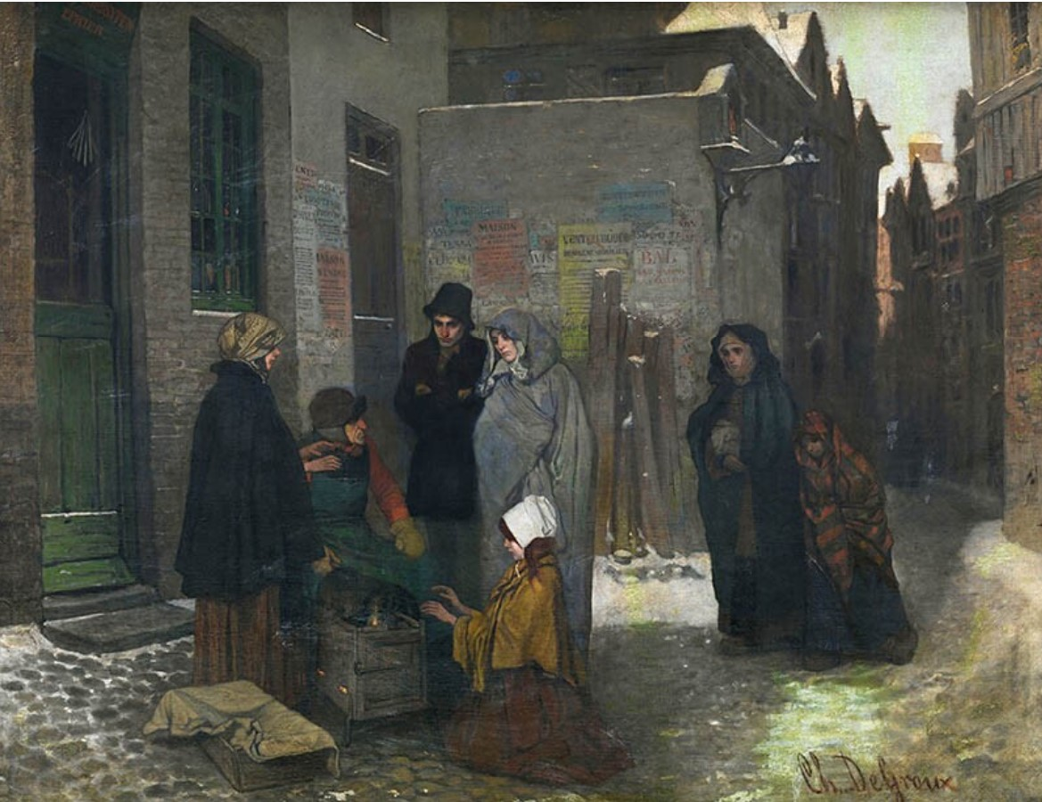 The coffee grinder